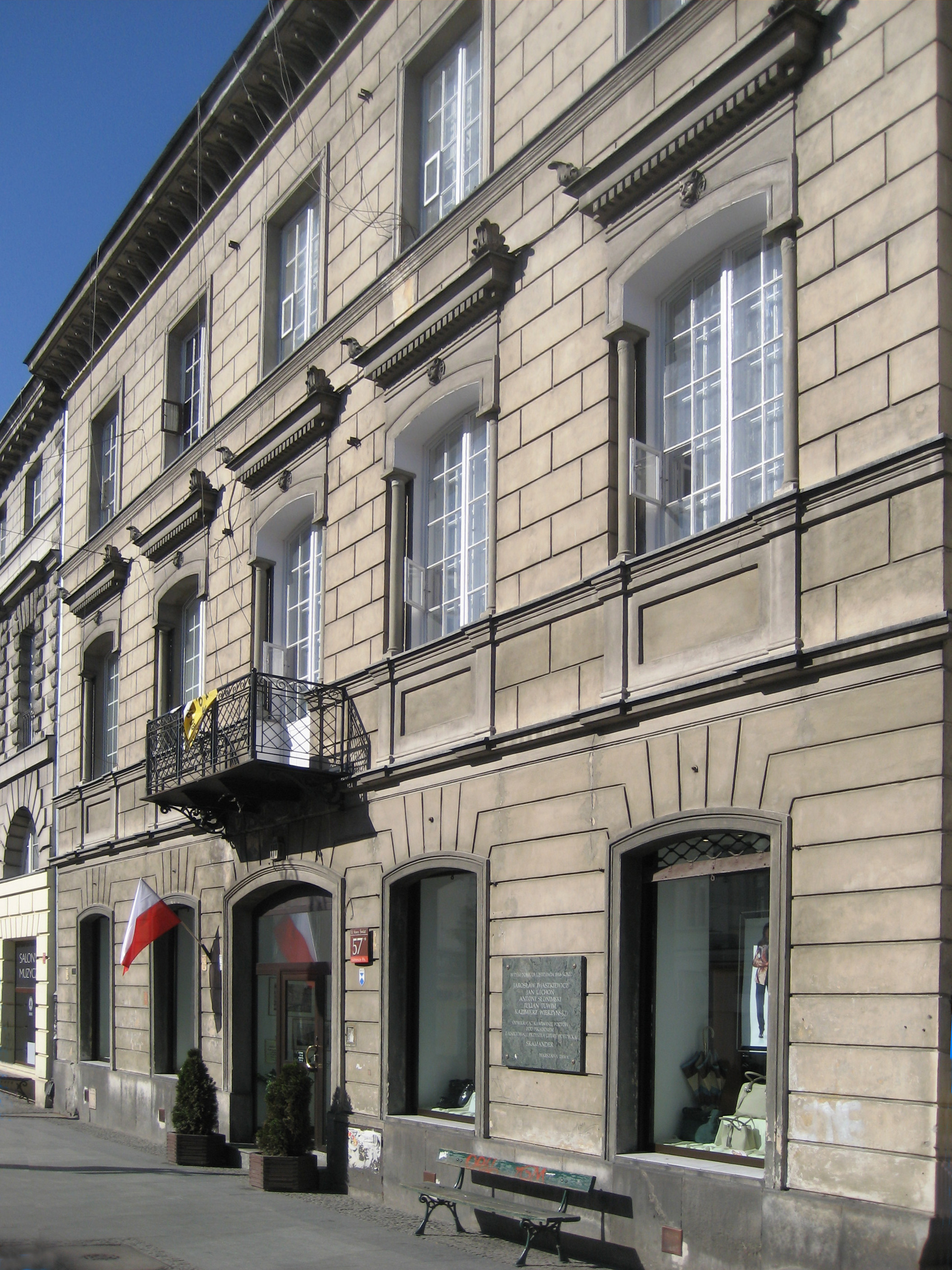 In this building, on 29 November 1918, Polish poets Jaroslaw Iwaszkiewicz, Jan Lechon, Antoni Slonimski, Julian Tuwim and Kazimierz Wierzynski opened the Picador Cafe, initiating what would become the Skamander group of poets.